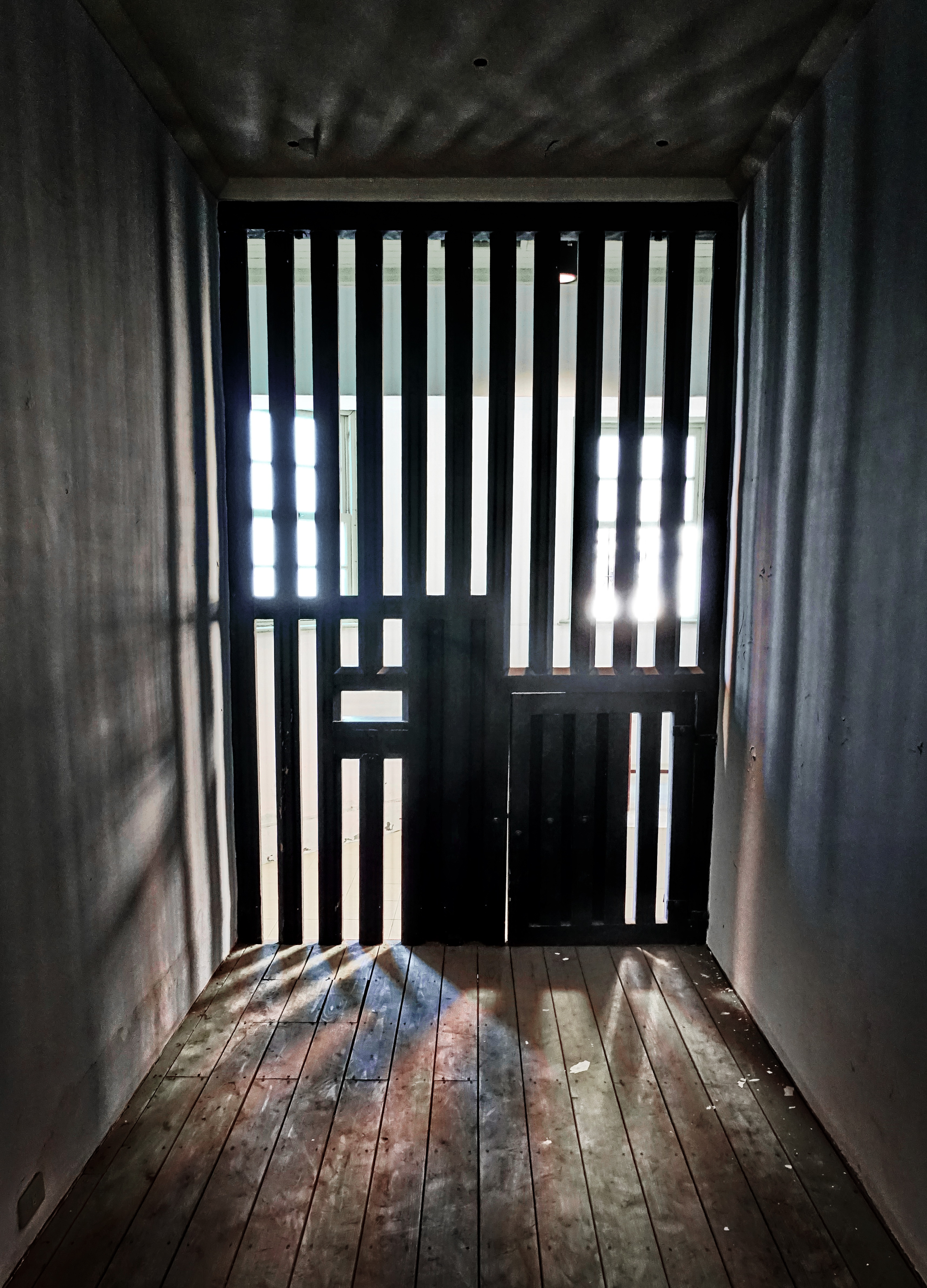 Detention Center of the former Huwei District Office, Huwei, Yunlin County, Taiwan.